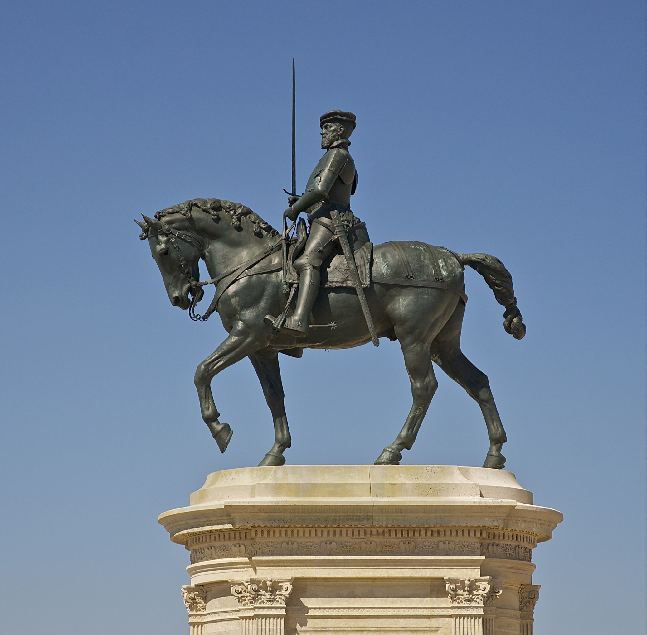 Equestrian bronze statue of Anne de Montmorency, Constable of France, (1492-1567) in the courtyard of the Château de Chantilly.